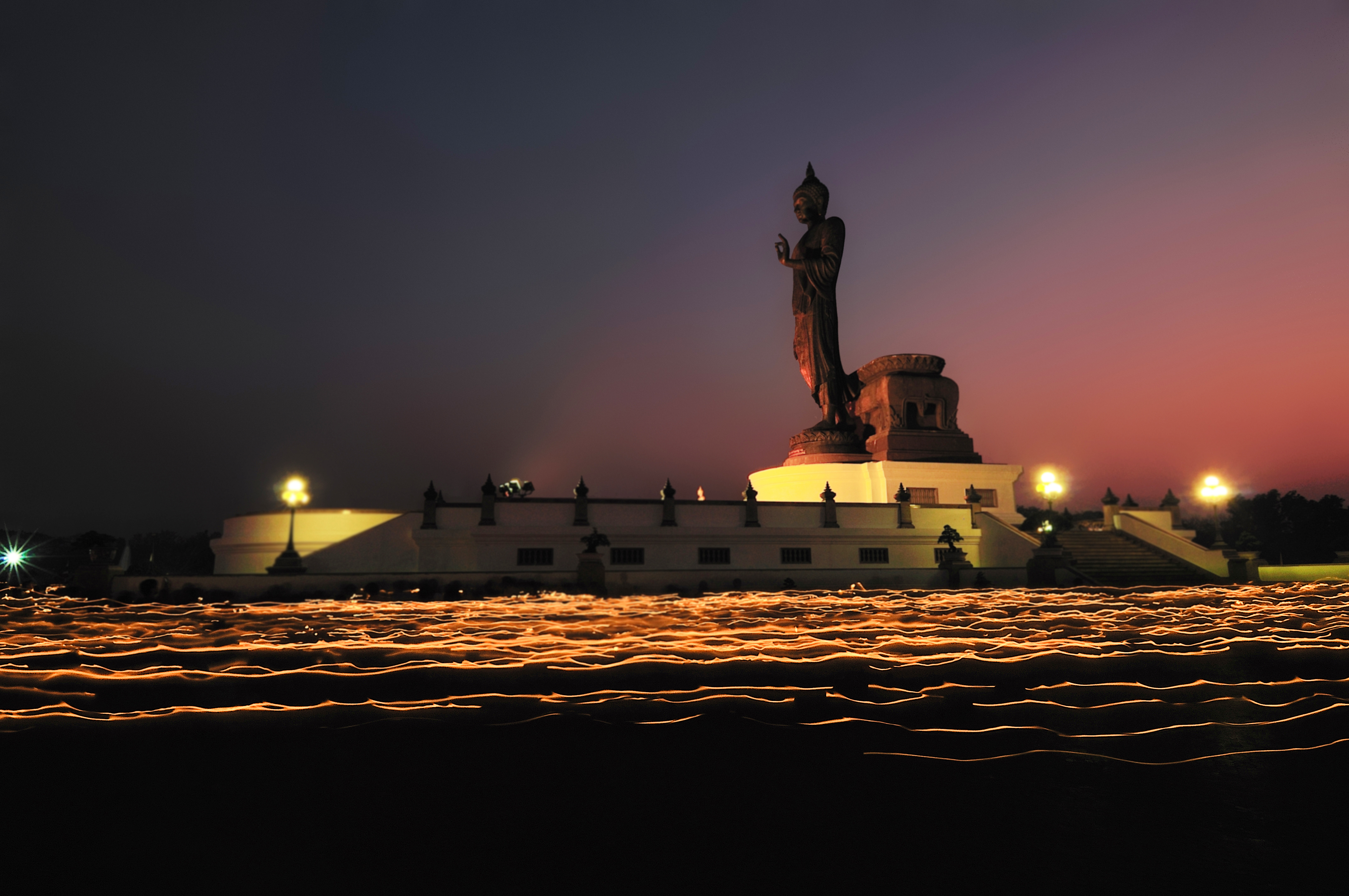 In Vesak day or Buddhist days, there is a ceremony called in Thai "Wien Tien" which Buddhist will hold their candle lights and walk around Buddhamonthol or other Buddhist places 3 rounds praying and make a wish